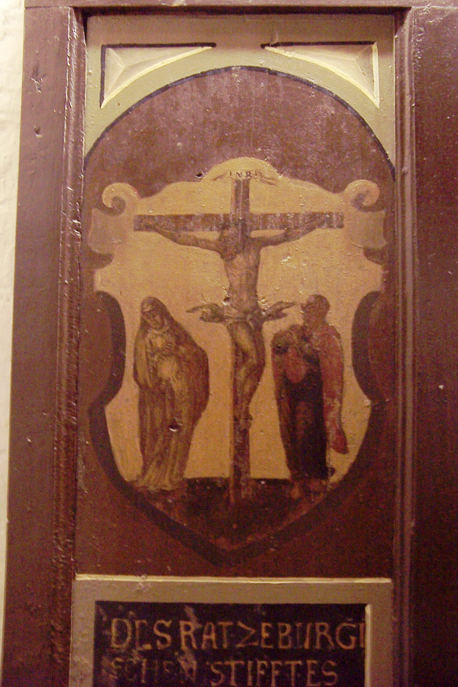 Coat of arms of the Ratzeburg cathedral chapter, former balcony panels in Herrnburg church